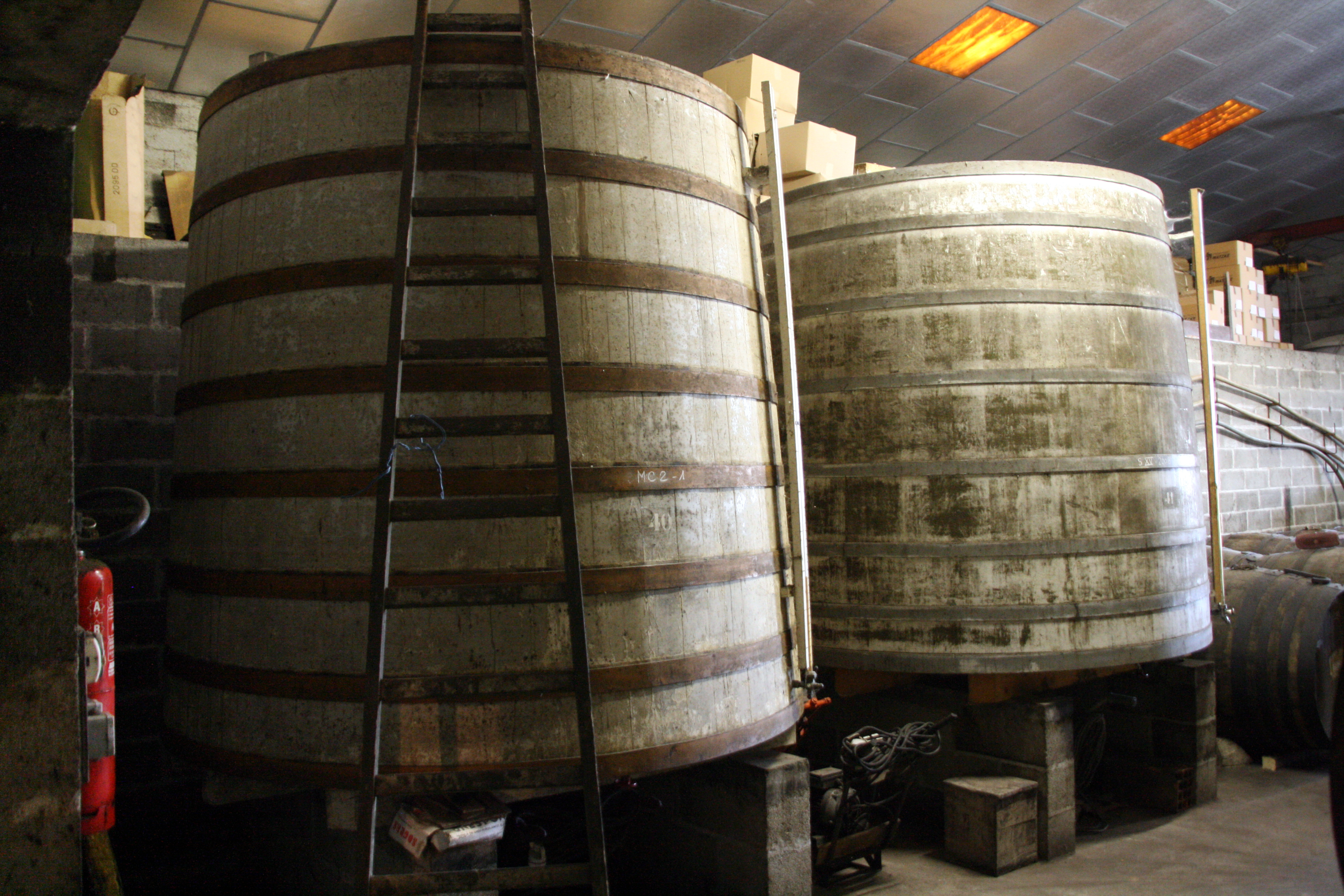 Two "Foudres", a kind of large barrels, used in a wine farm producing Cognac, in Cherves de Cognac, Charente, Poitou-Charentes, France.